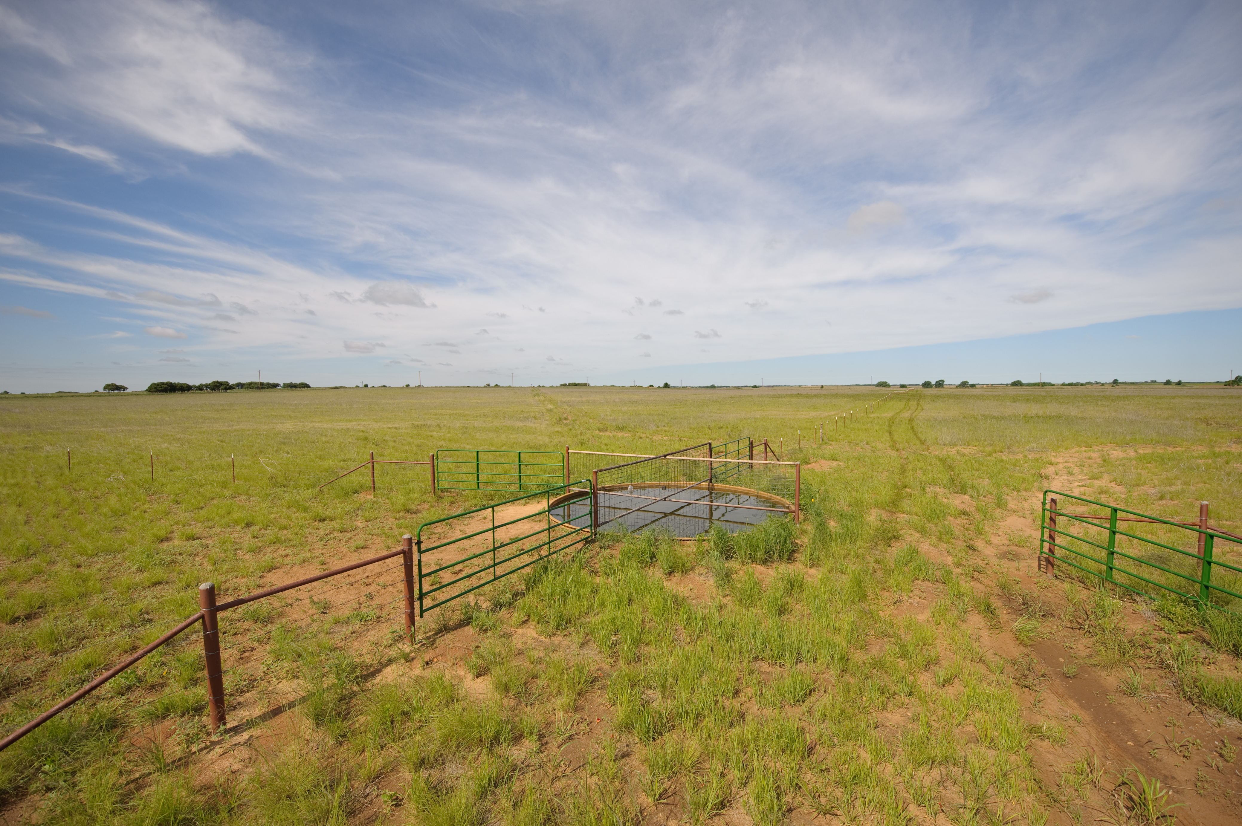 This image or file is a work of a United States Department of Agriculture employee, taken or made as part of that person's official duties. As a work of the U.S. federal government, the image is in the public domain.